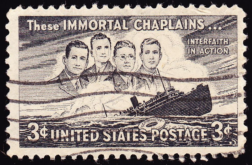 US Postage stamp, Immortal Chaplains, 1948 issue, 3c, black